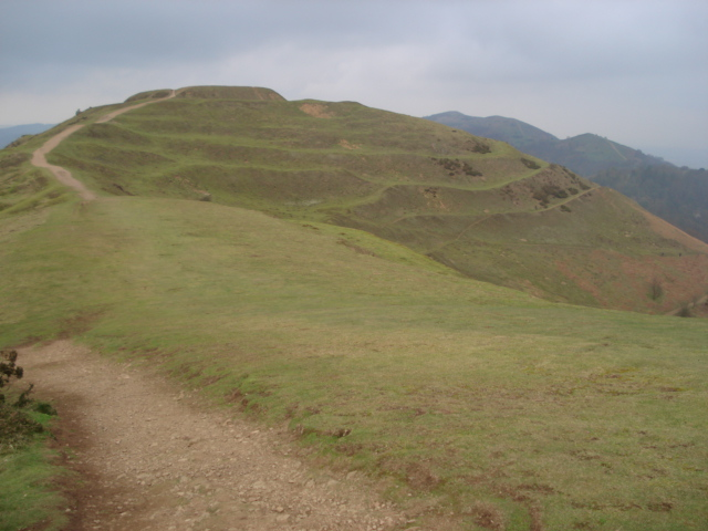 Layers of defences on the Hereford Beacon